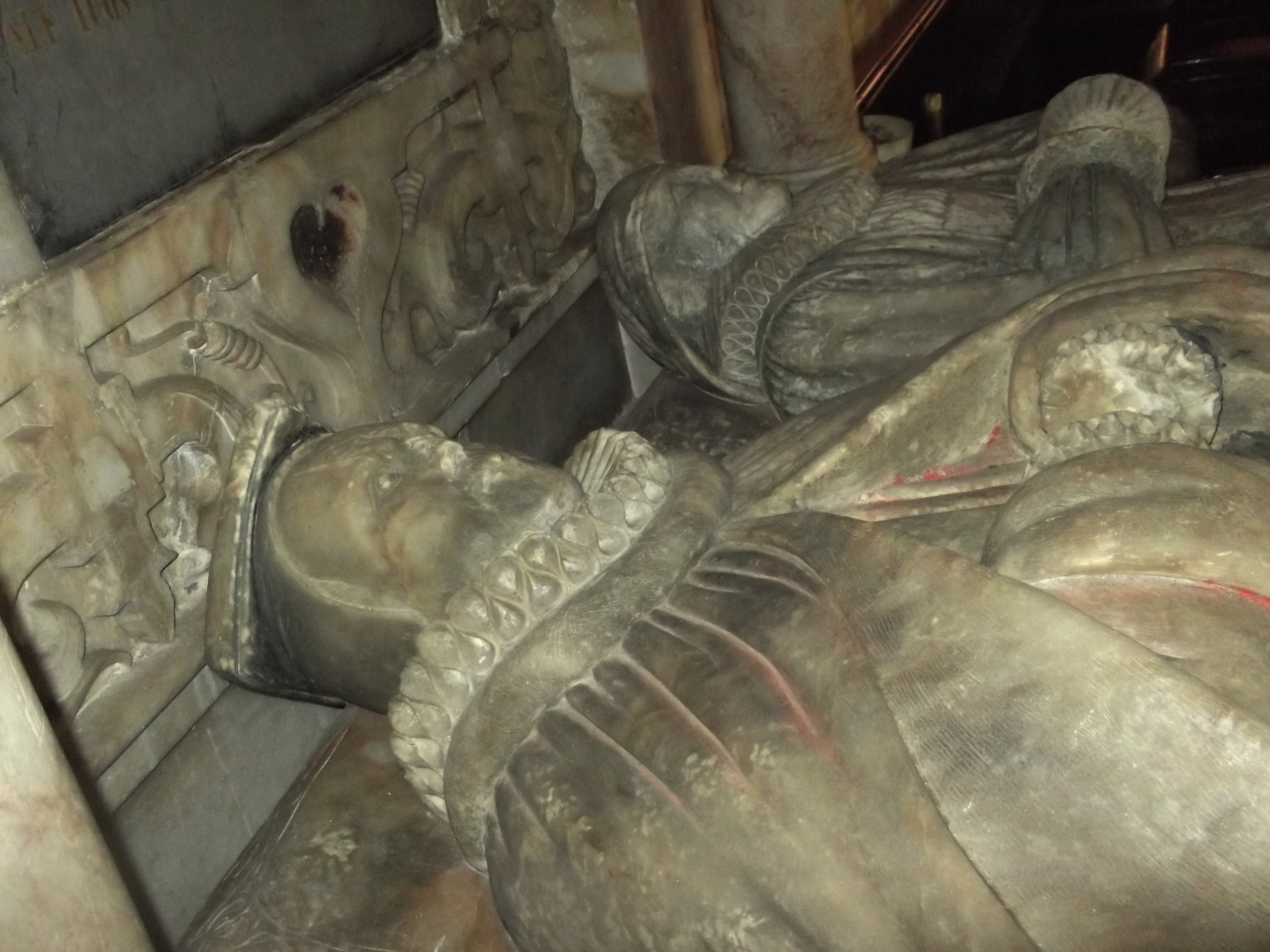 St Peter the Apostle, Worfield, Shropshire. Effigies of Edward Bromley, a judge of the 16th and 17th centuries, and Margaret Lowe, his wife.